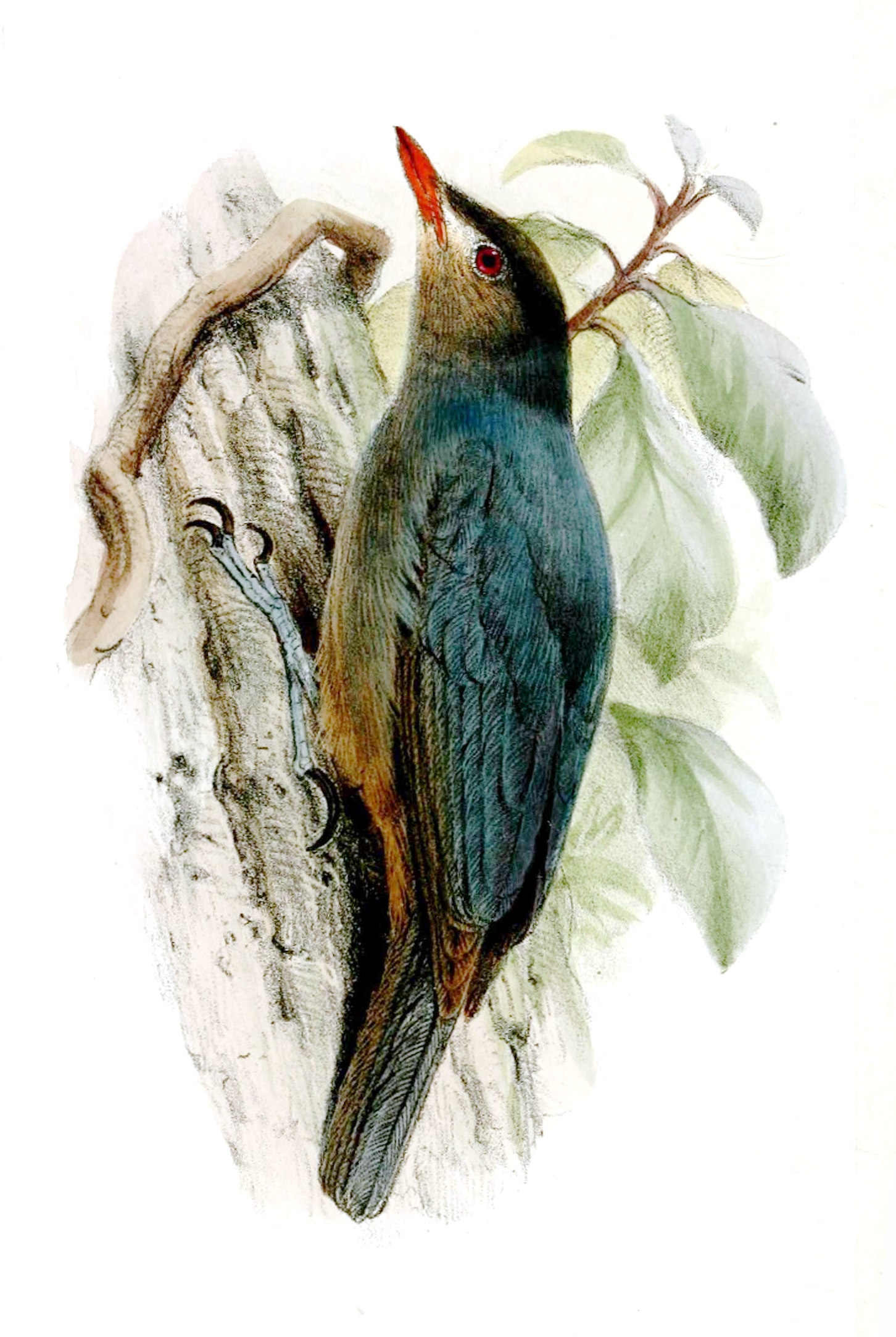 Nuthatch Vanga